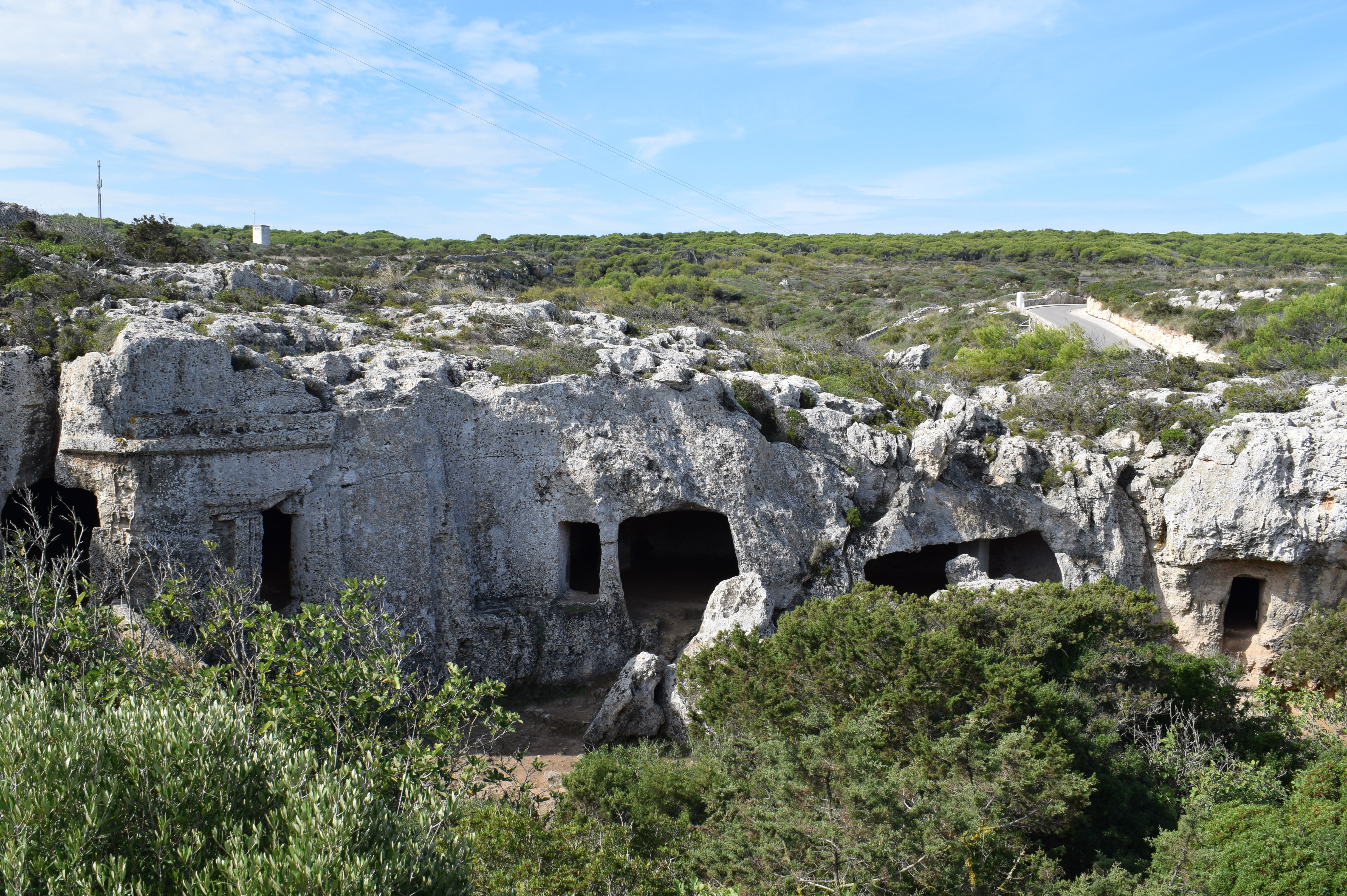 Caves 1 to 4 (from right to left) of Cala Morell necropolis, Ciutadella, Minorca.